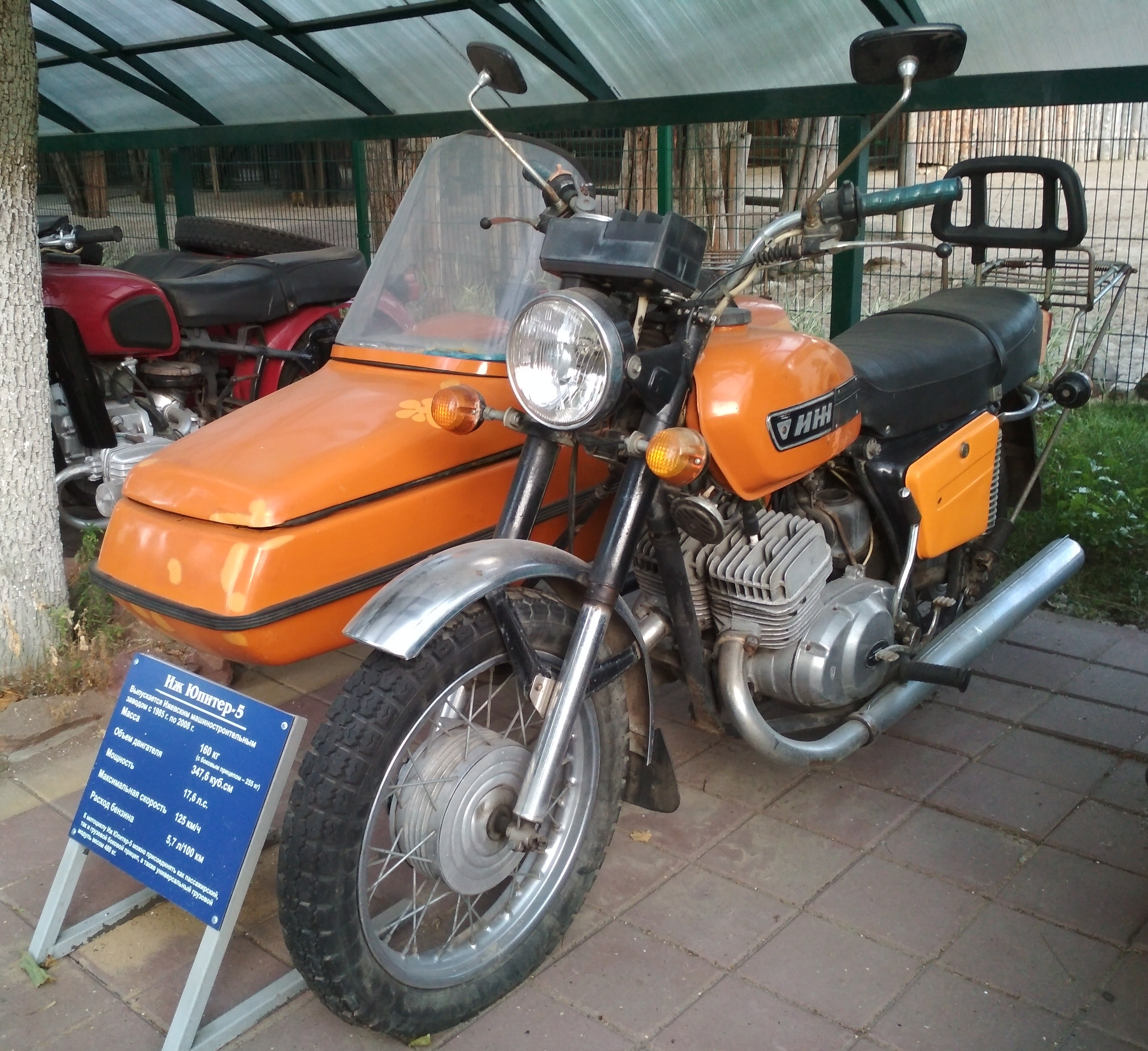 Motorcycle IZ Jupiter-5 in the collection of Nizhny Novgorod zoo "Limpopo"